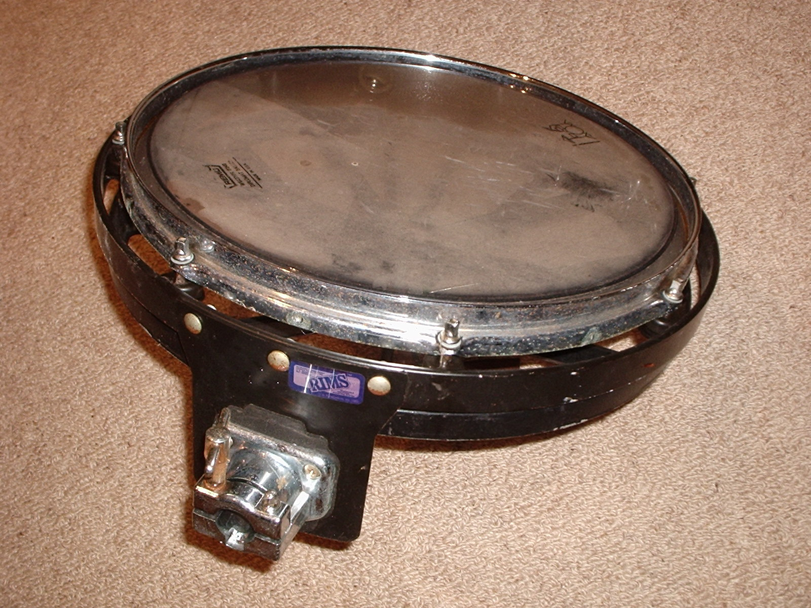 Remo 14" Rototom on a RIMS mount with a Pearl fitting. This RIMS mount also bears the brand Resonance Isolation Mounting System and the notes Patented 4158980, 4252047, Canada patented 1982, UK 2052827 PAT PENDING and Copyright PureCussion Inc. 1985. See File:RIMS 2.JPG for another view.